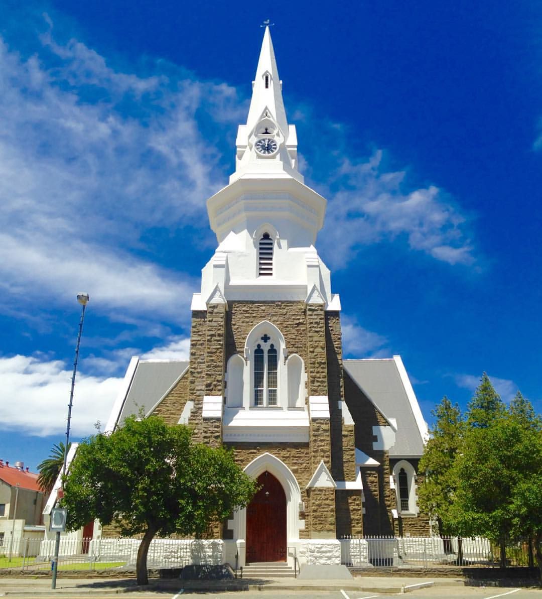 This church was established on 16 May 1820, making it the 12th oldest Dutch Reformed church in South Africa.